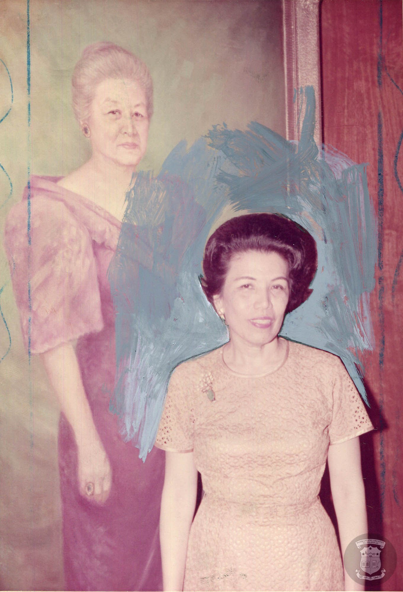 Photo of former Philippine senator Helena Benitez